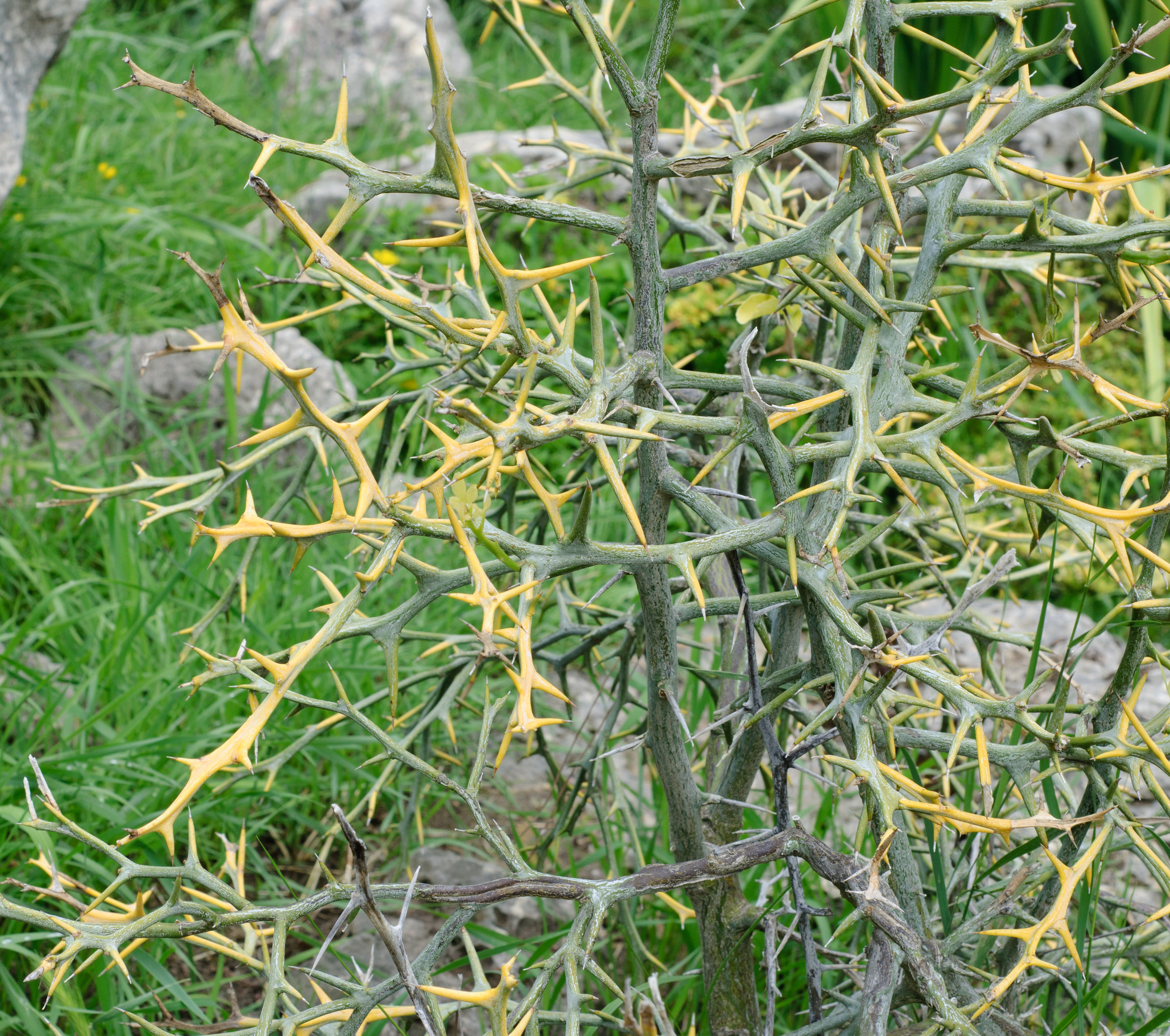 Branches of young Chinese Bitter Orange (Poncirus trifoliata) found at the botanical garden of Balchik Palace, Bulgaria.